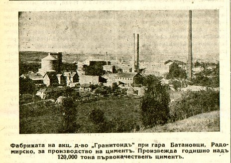 Granitoid Factory, Batanovtsi, Bulgaria